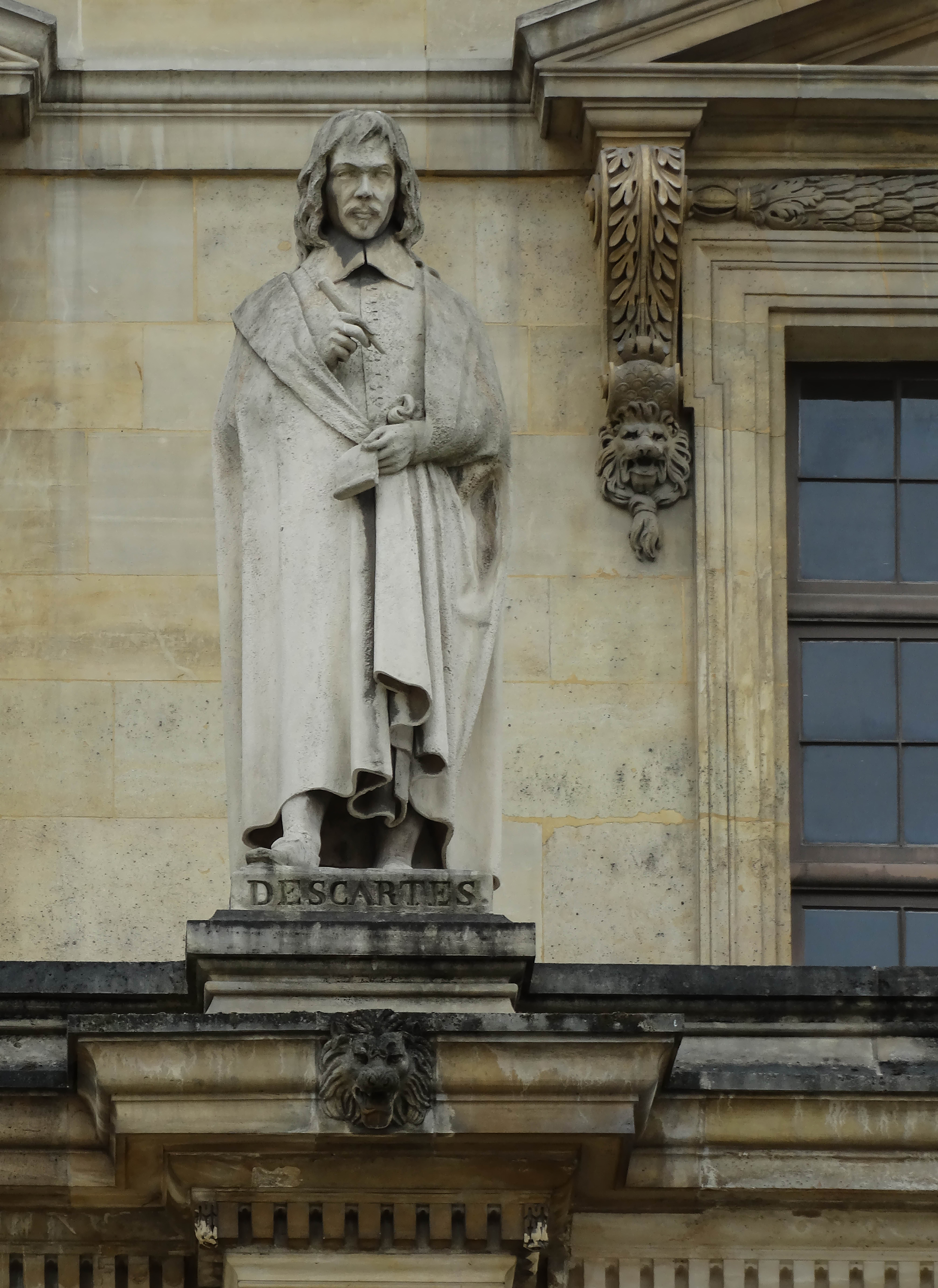 This statue of Rene Descartes, a philosopher and mathematician, now on the Aile Daru of the Louvre and was created by Gabriel Garraud.